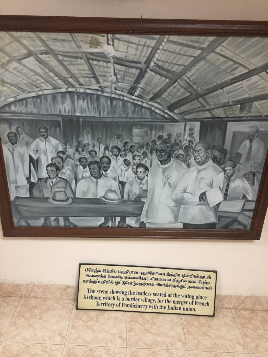 Kizhur